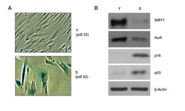 a)young(Y) and senescent(S) WI-38 cells. b)Western Blot analysis of young(Y) and senescent(S) WI-38 cells.